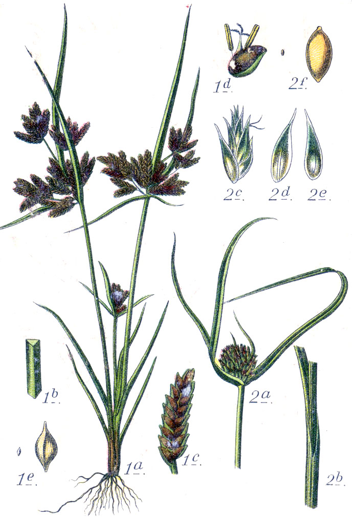 1. Cyperus fuscus L. 2. Cyperus michelianus (L.) Link Original Caption 1. Braunes Cypergras, Cyperus fuscus 2. Micheli's Cypergras, C. michelianus